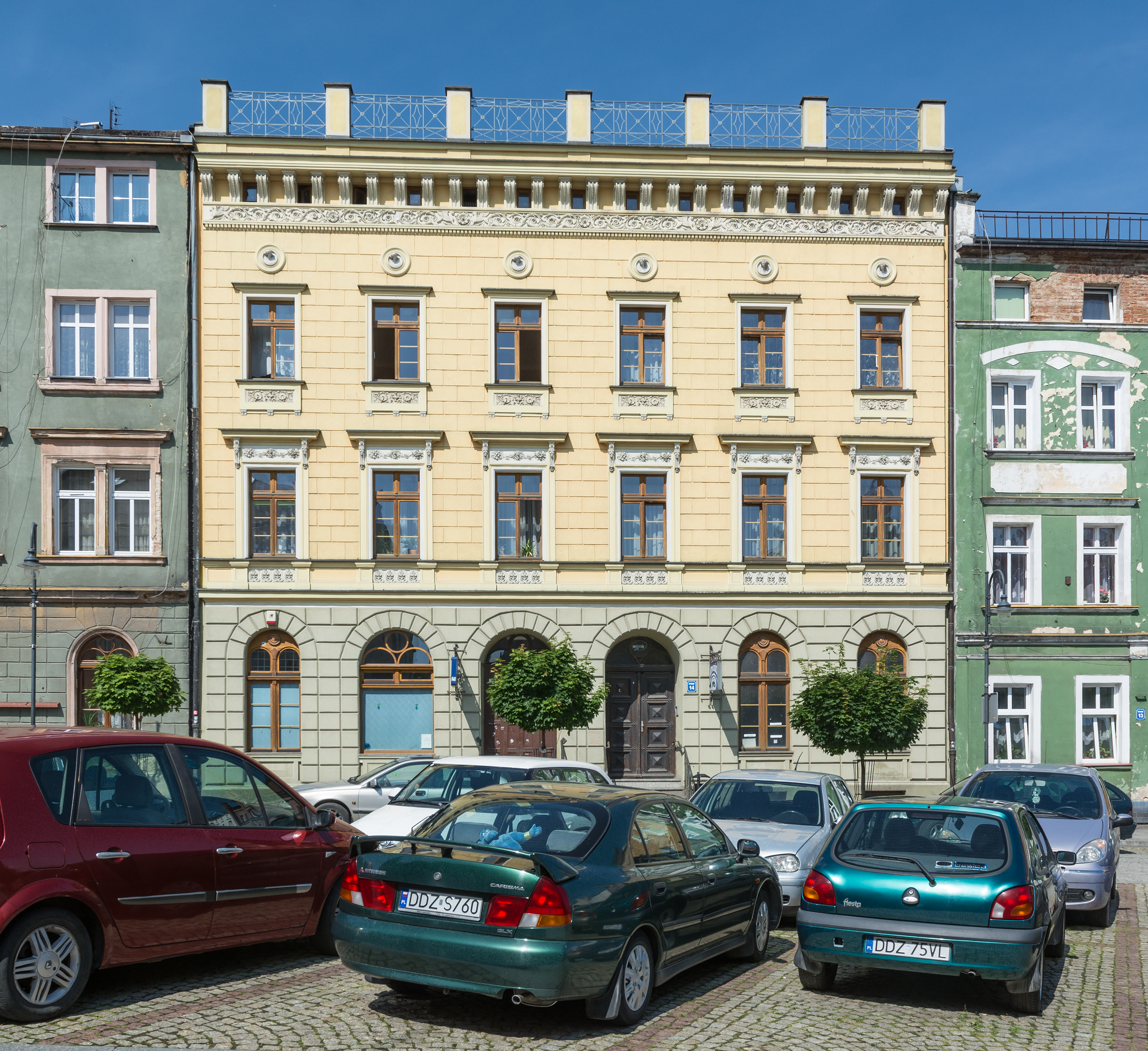 14 Market Square in Niemcza